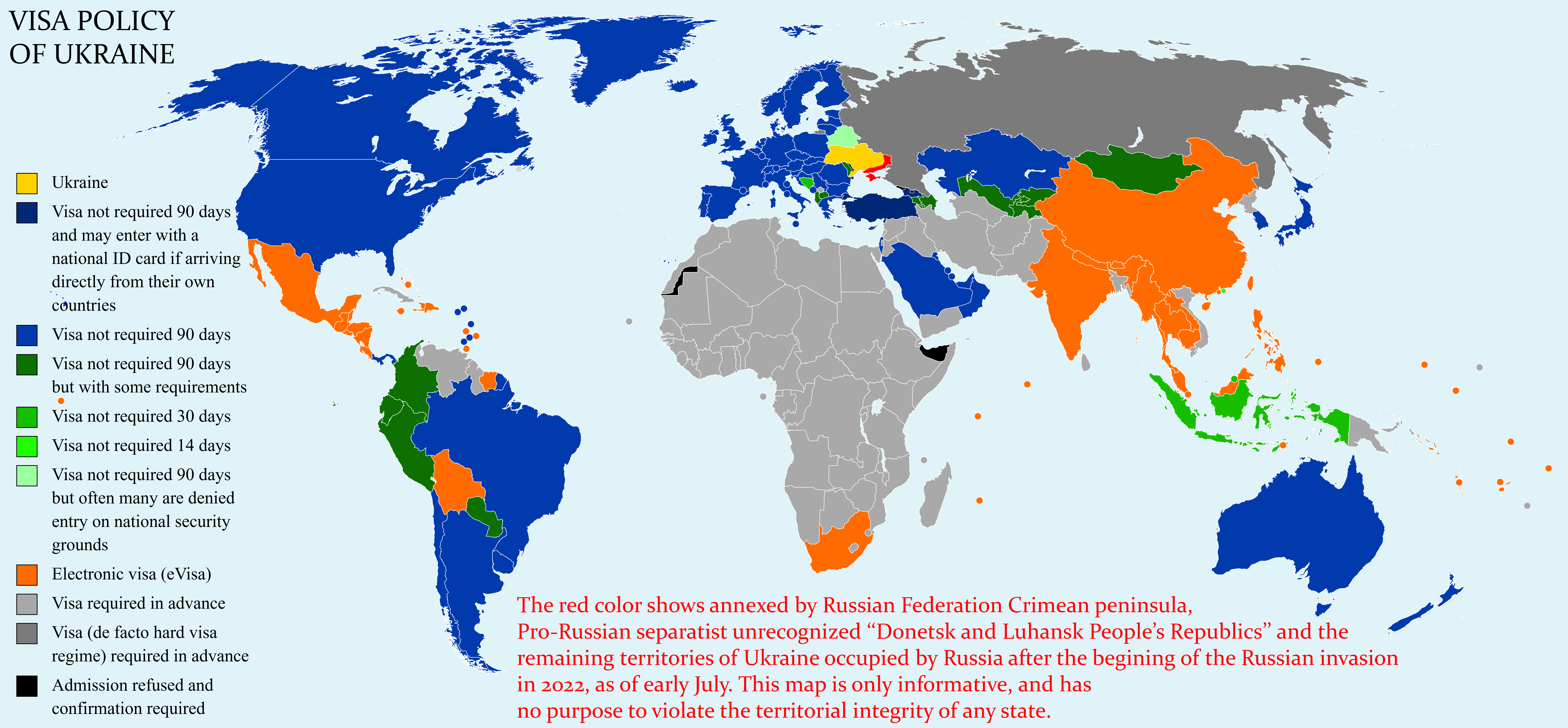 Visa policy of Ukraine Ukraine Visa-free eVisa Visa required in advance